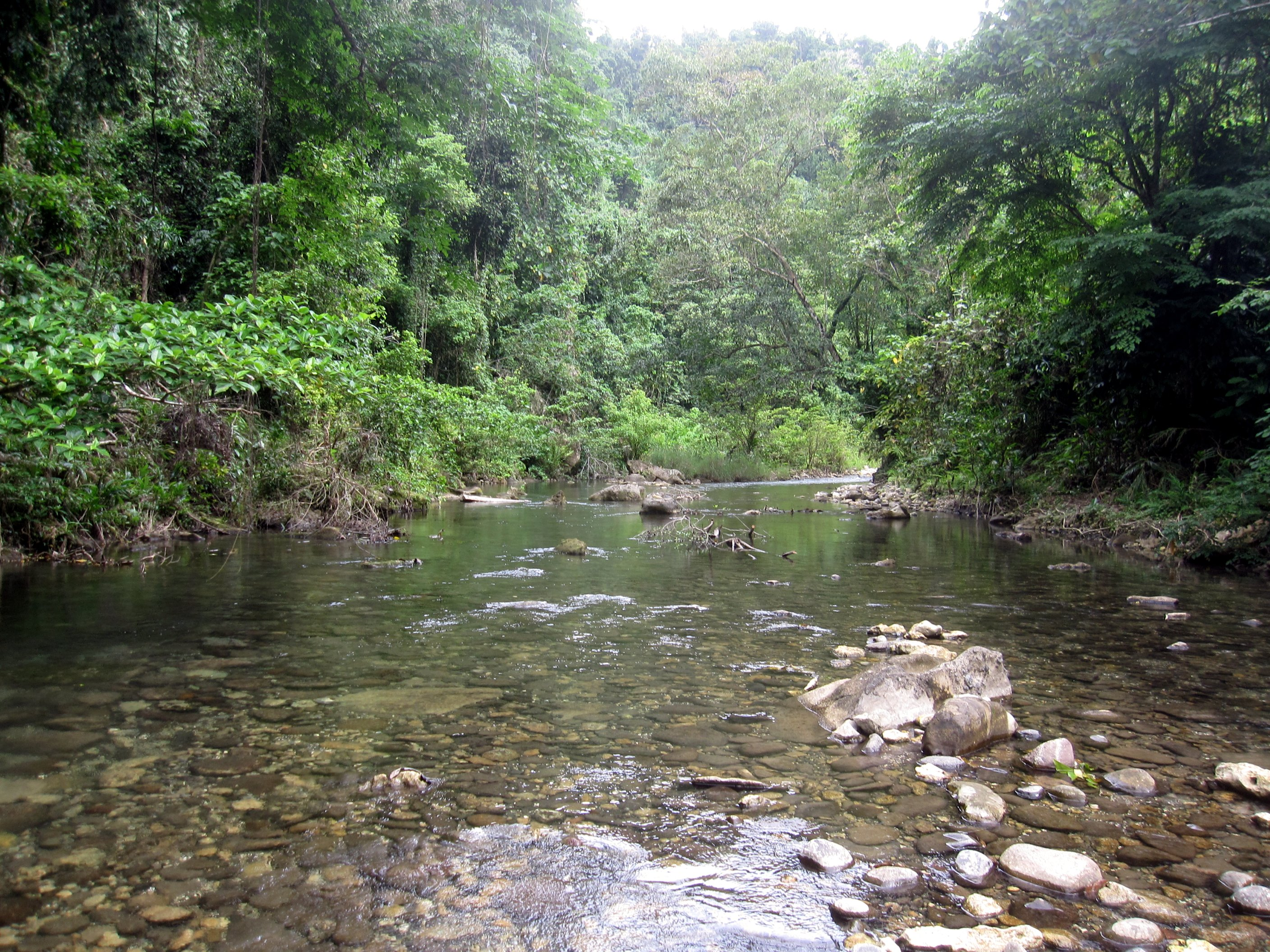 River in Guadalcanal, Solomon Islands